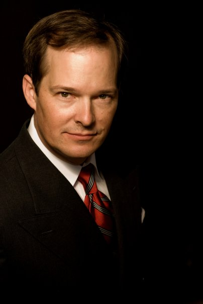 Erik Laykin 2008